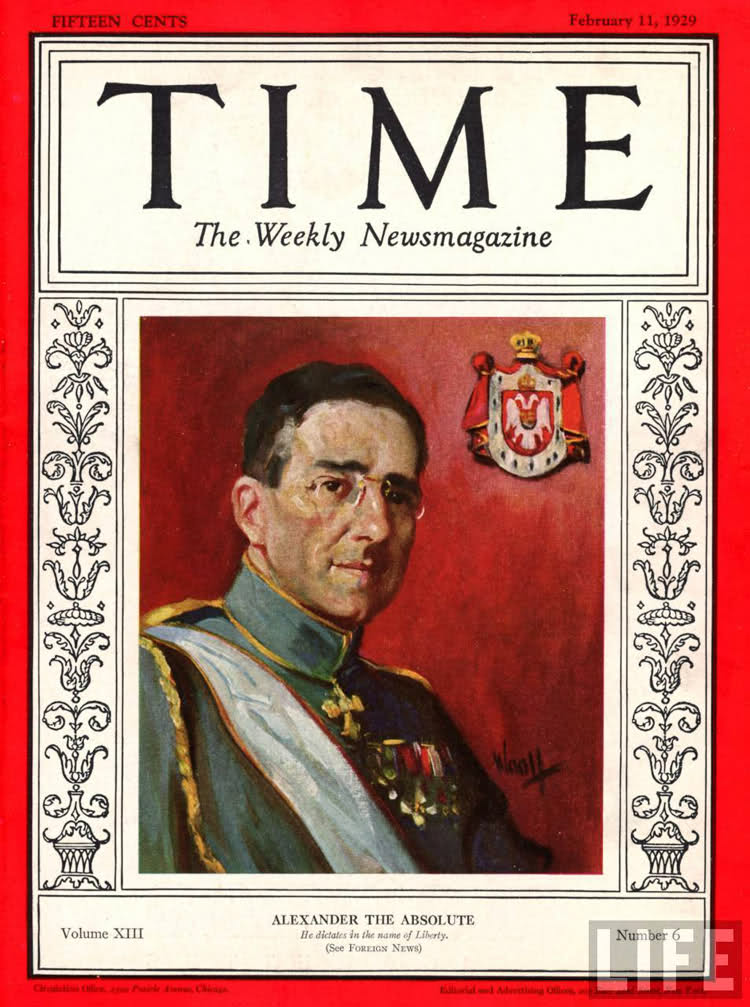 Alexander the Absolute. Cover of Time Vol. 13 No. 6, February 11, 1929.